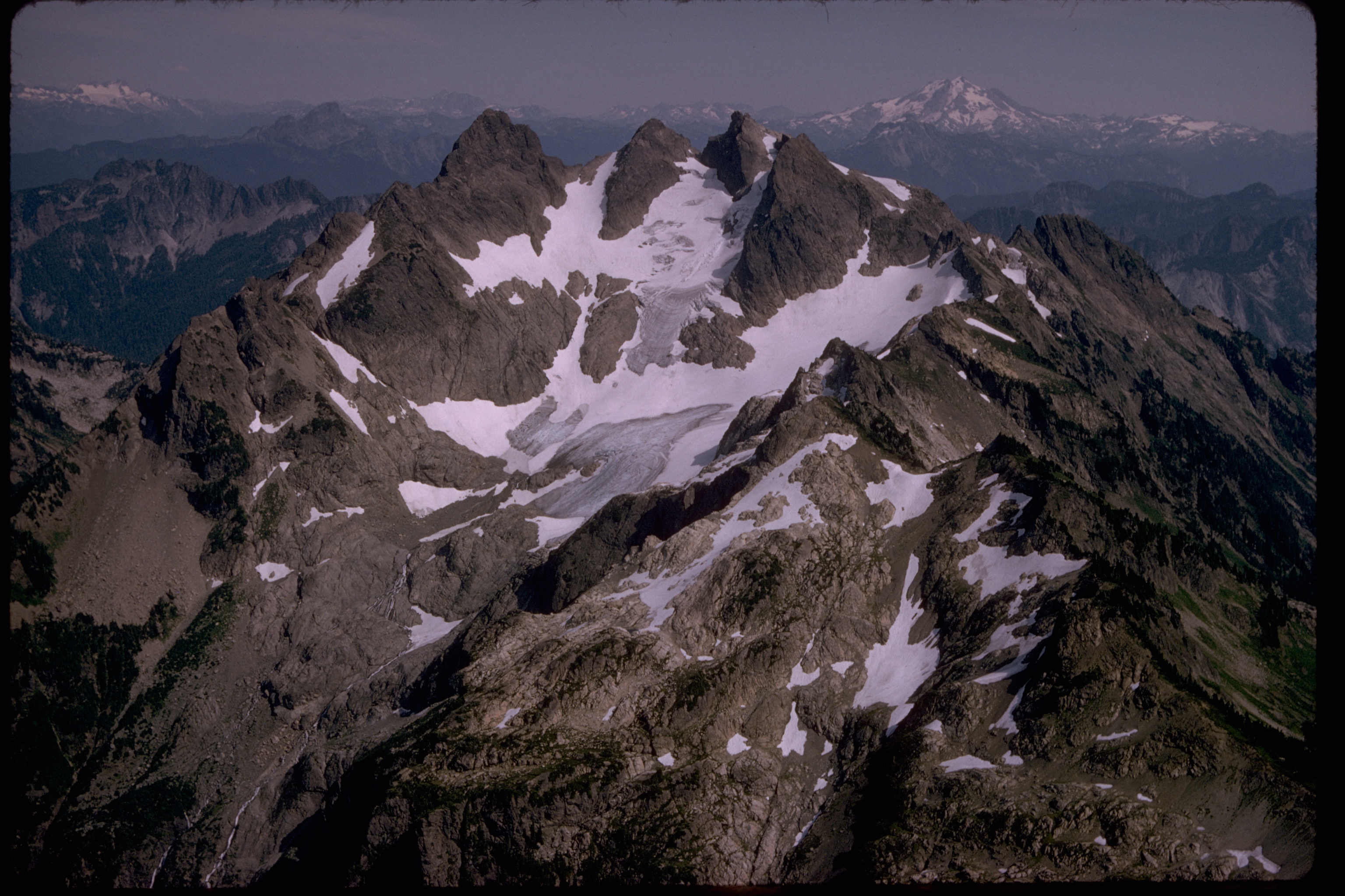 Location North Cascades National Park Service Complex Description Jagged peaks, deep valleys, cascading waterfalls and over 300 glaciers adorn the North Cascades National Park Service Complex. Three park units in this mountainous region are managed as one and include North Cascades National Park, Ross Lake, and Lake Chelan National Recreation Areas. These complementary protected lands are united by a contiguous overlay of Stephen Mather Wilderness.